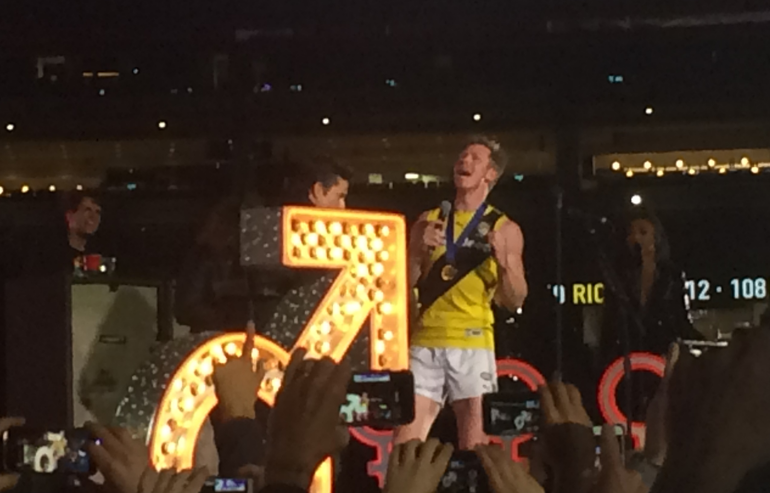 Jack Riewoldt singing Mr Brightside on stage with The Killers at the Premiership Party following the 2017 AFL Grand Final